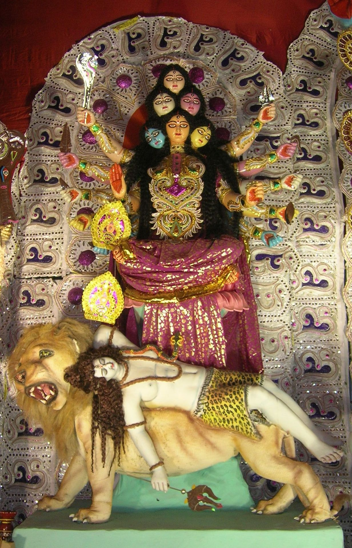 Devi Kamakshya at All Youth Friends' Club, Shakespeare Sarani, Kolkata.